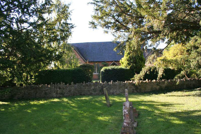 School by the church The old Village school just across from the church now a house.